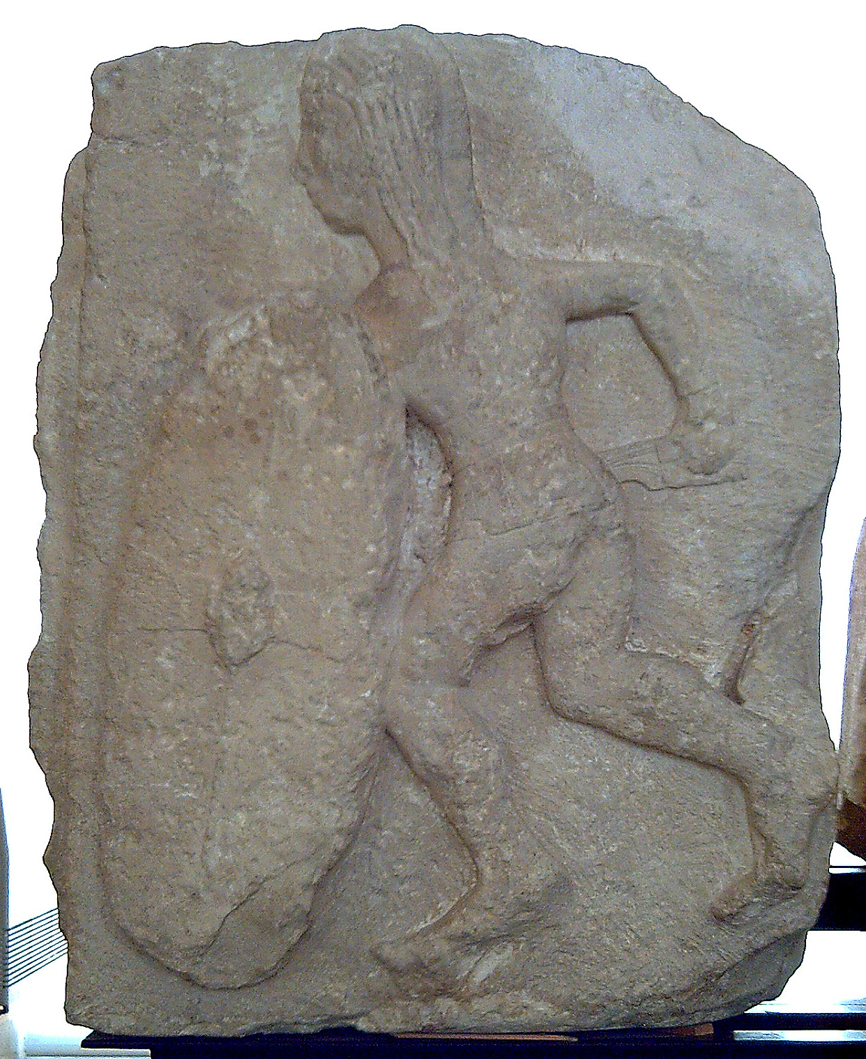 Warrior armed with a falcata and an oval shield. Iberian artwork, part of the Monument A from Osuna.